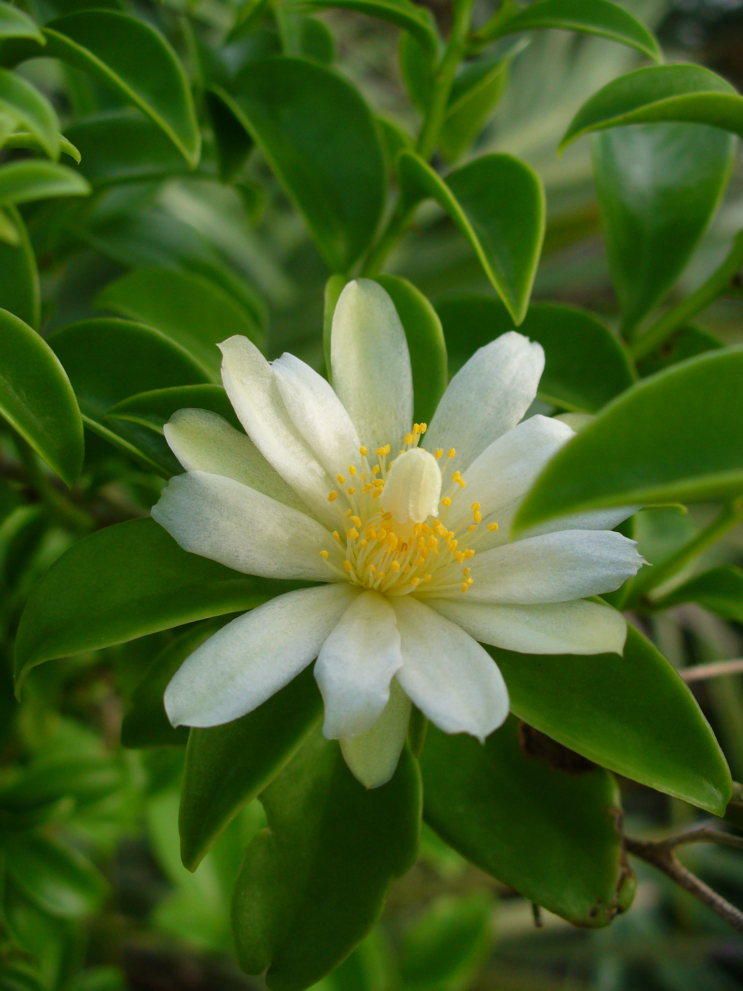 cultivated, South Miami, Florida, USA. If you recognize the species, please comment.